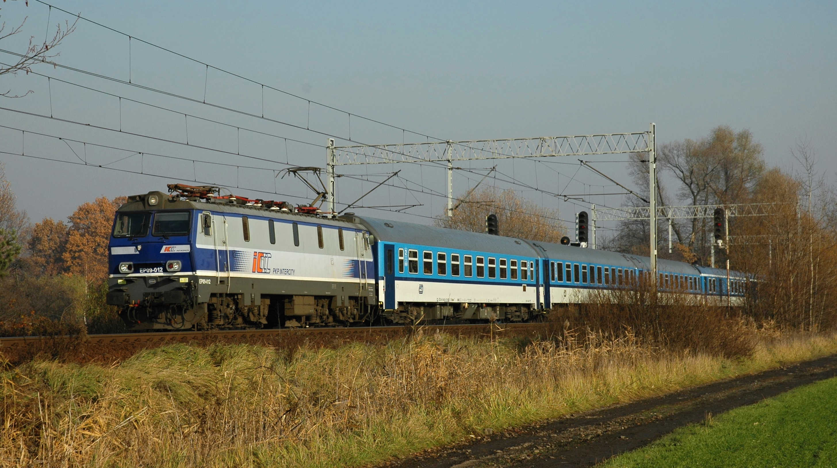 EP09-012 PKP Intercity, train EC 110 "Praha" from Warsaw to Prague, between Ochodza and Zabrzeg, Poland